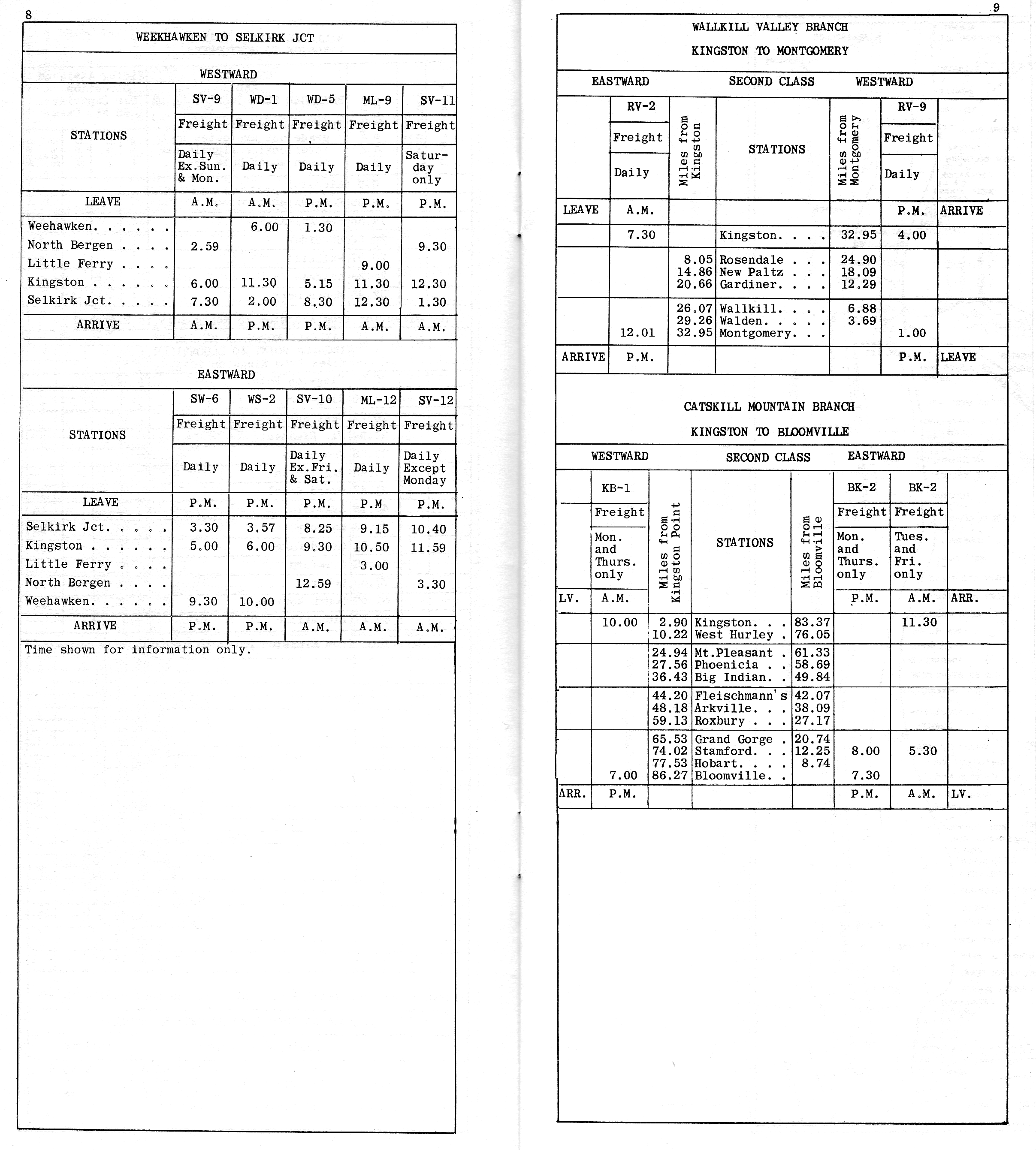 Freight Schedule (no timetable authority) of New York Central's River Division on the eve of the Penn Central merger, from Employee Timetable No.22, effective 1967-11-05.